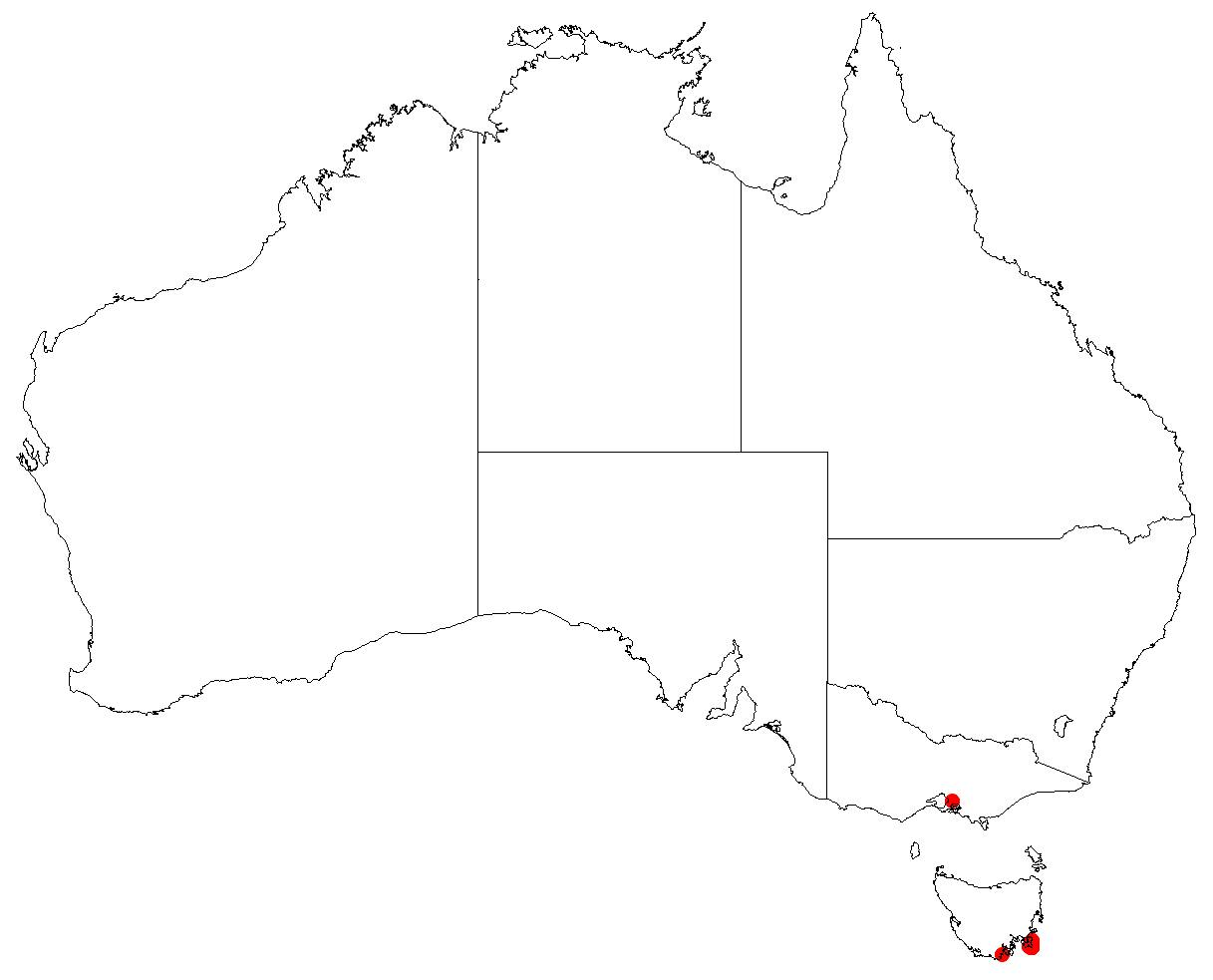 Allocasuarina crassa occurrence data from Australasian Virtual Herbarium download 4 July 2018